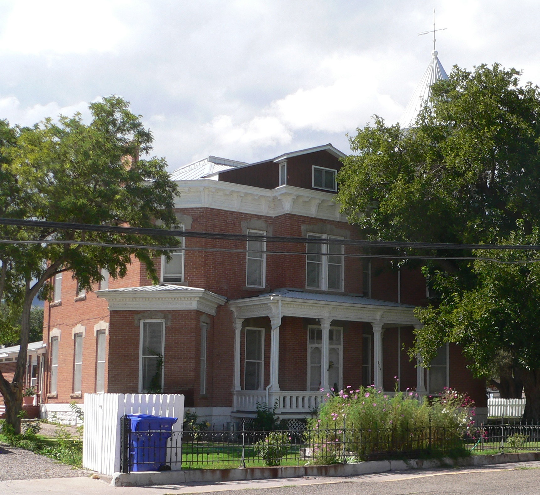 Casa de Flecha, located at 407 Park Street in Socorro, New Mexico; seen from the southeast.